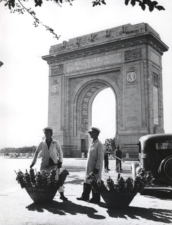 Pretzel vendors in uniform in front of the Triumph Arch